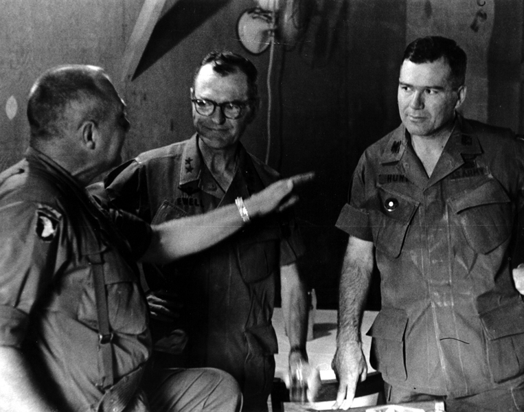 Major General Julian J. Ewell (center) listens to 1st Brigade commander Colonel John Geraci while Colonel Ira A. Hunt Jr., the 9th Infantry Division chief of staff, stands to the right. From an online version of: SHARPENING THE COMBAT EDGE: THE USE OF ANALYSIS TO REINFORCE MILITARY JUDGMENT by Lieutenant General Julian J. Ewell and Major General Ira A. Hunt, Jr. DEPARTMENT OF THE ARMY, WASHINGTON, D.C., 1995